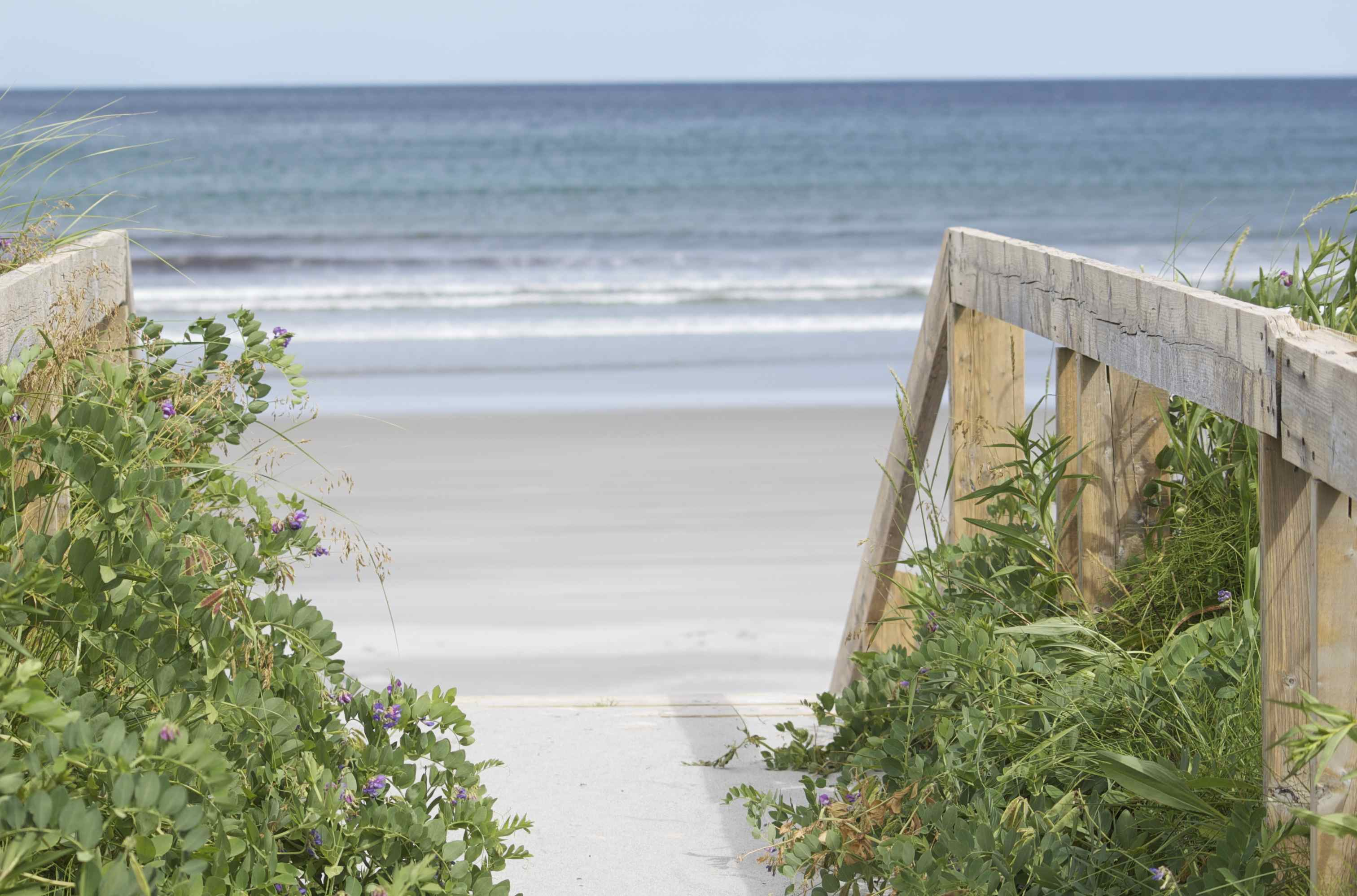 Beach Meadows board walk entry to the Beach Meadows Municipal Park Beach, Beach Meadows, Nova Scotia, Canada